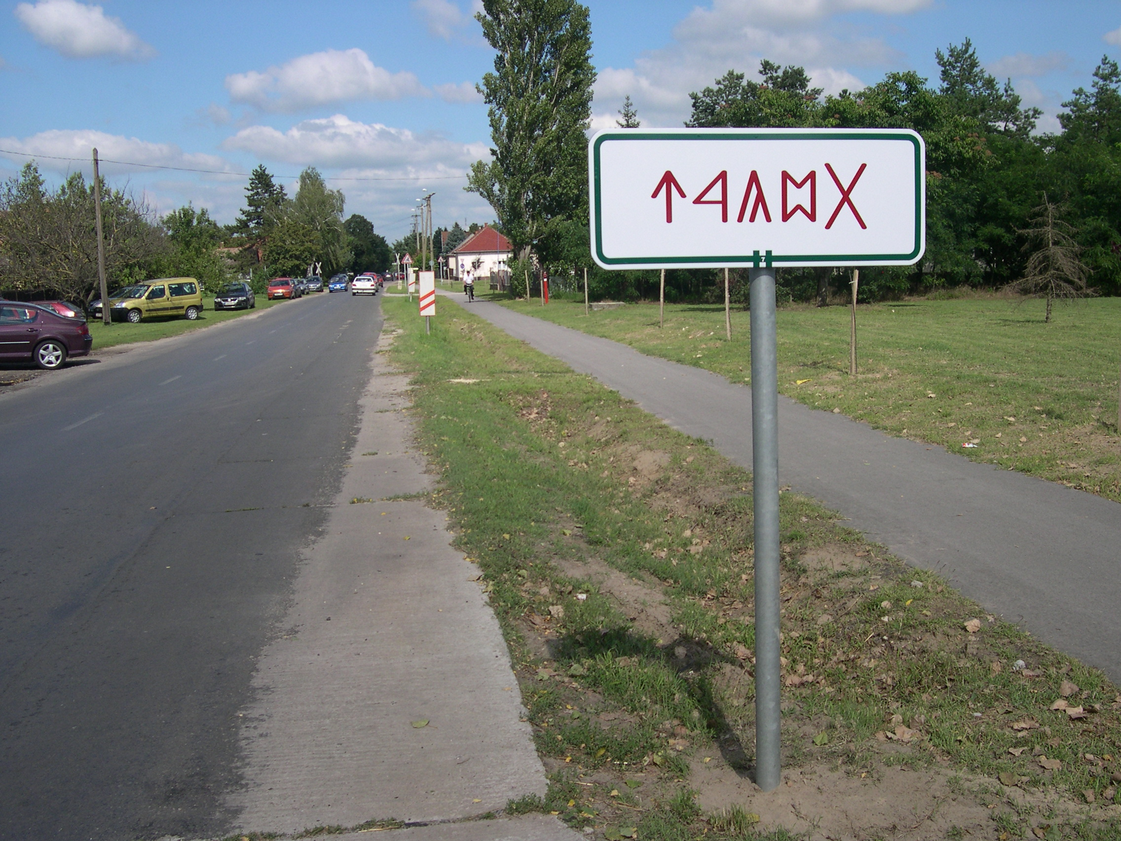 City limit table in Bugac, Hungary. Traditional hungarian letters (rovas), spelling bugac (right to left).